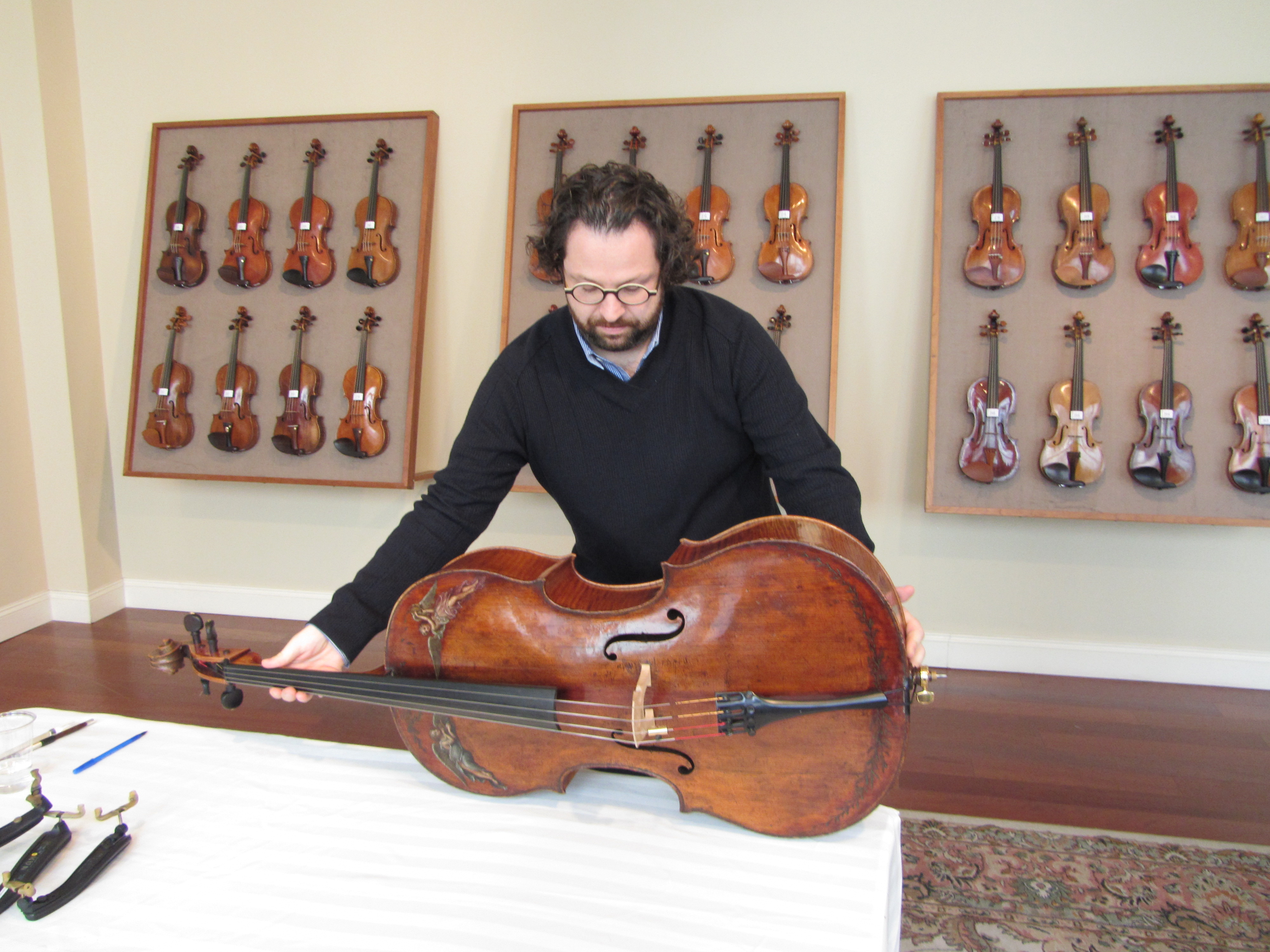 Rodrigo Sebastián González, embajador del "Stradivarius del Vaticano"